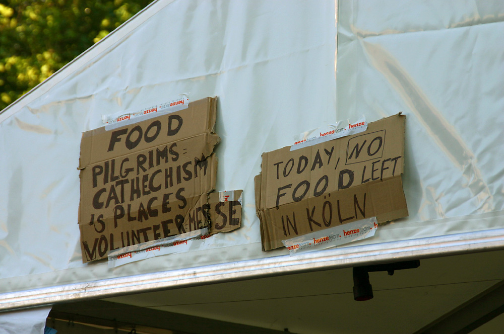 World Youth Day 2005 in Cologne, Germany date: 2005-08-17 author: Elke Wetzig (elya)